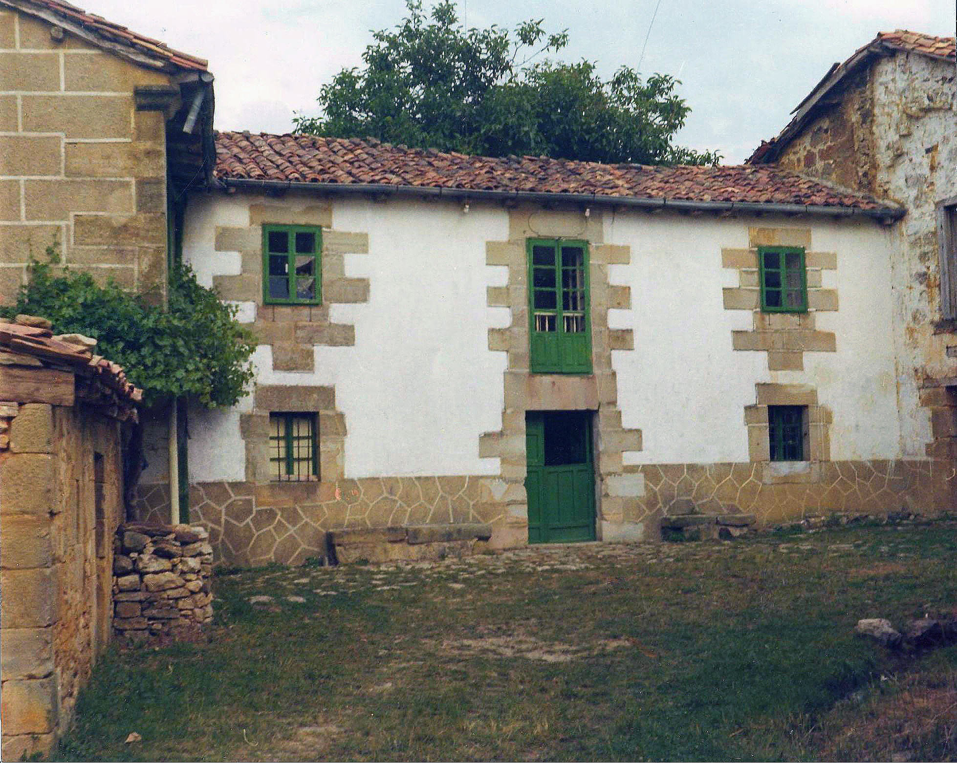 Casa de Olleros